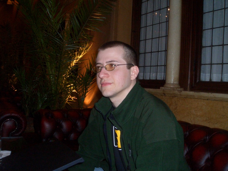 Jon Lech Johansen in Oslo 2005. Fotografiert von Cory Doctorow (Quelle: )